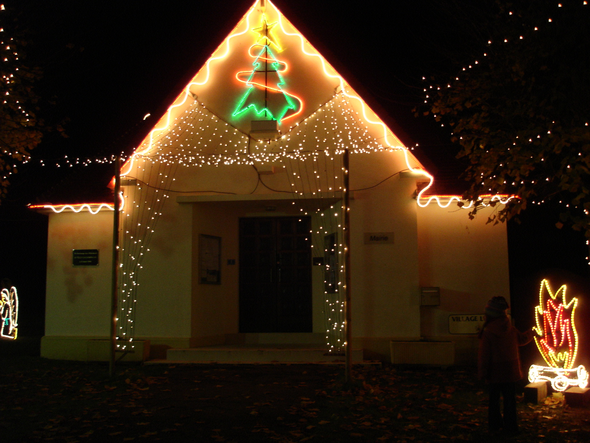 The church of Tilly-la-Campagne with Christmas lights